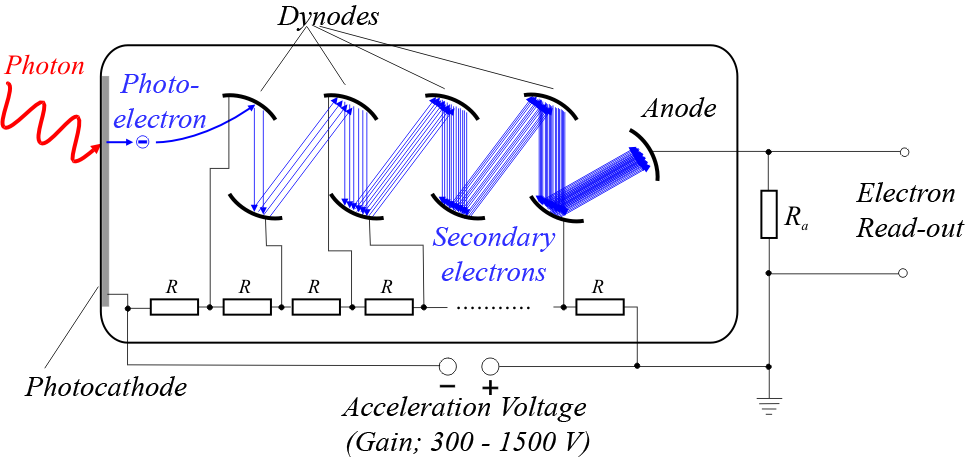 Scheme of a Photomultiplier Tube (PMT) in English